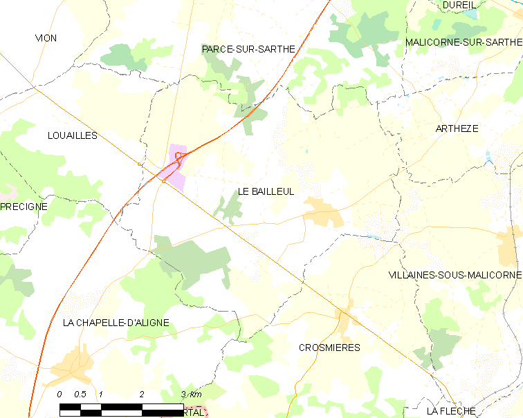 Map of French municipality